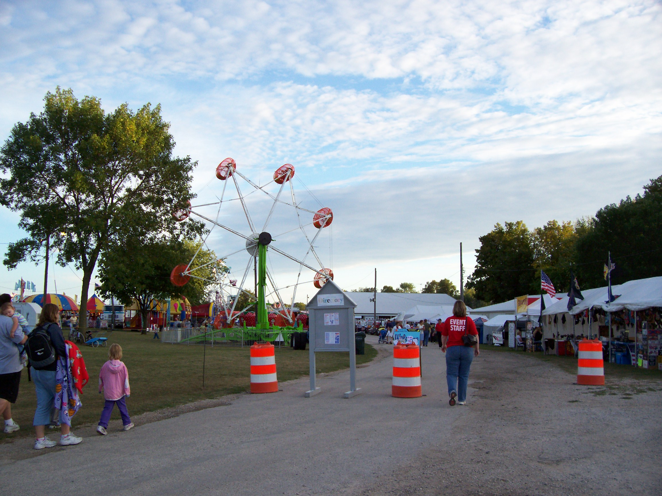 Daytime picture of the Calumet County, Wisconsin Fair in Chilton, Wisconsin, USA, taken September 1, 2006 by User:Royalbroil